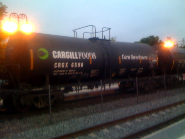 Railroad tank car transporting high fructose corn syrup